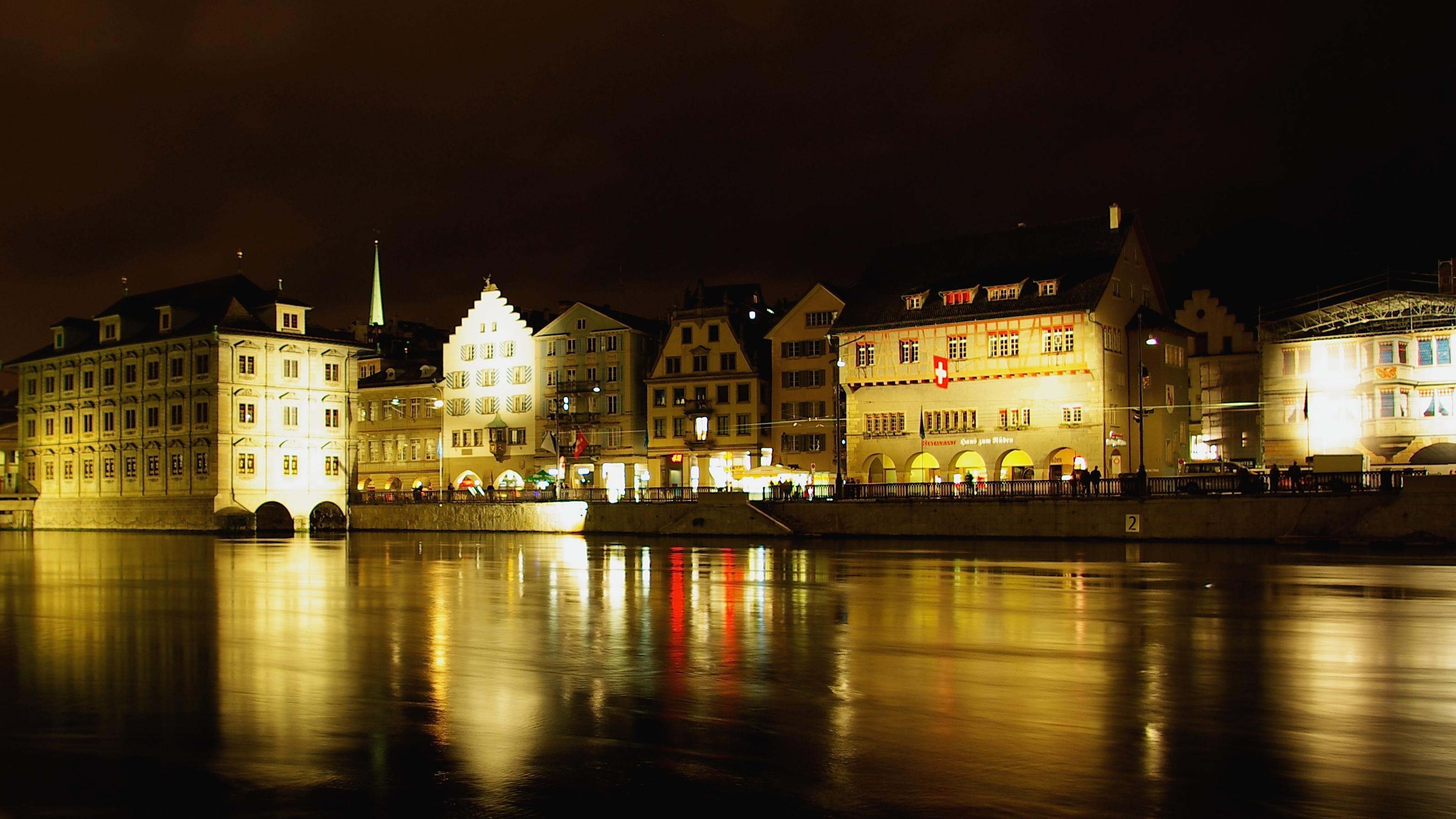 Limmatquai at nighttime, Zürich, Switzerland.